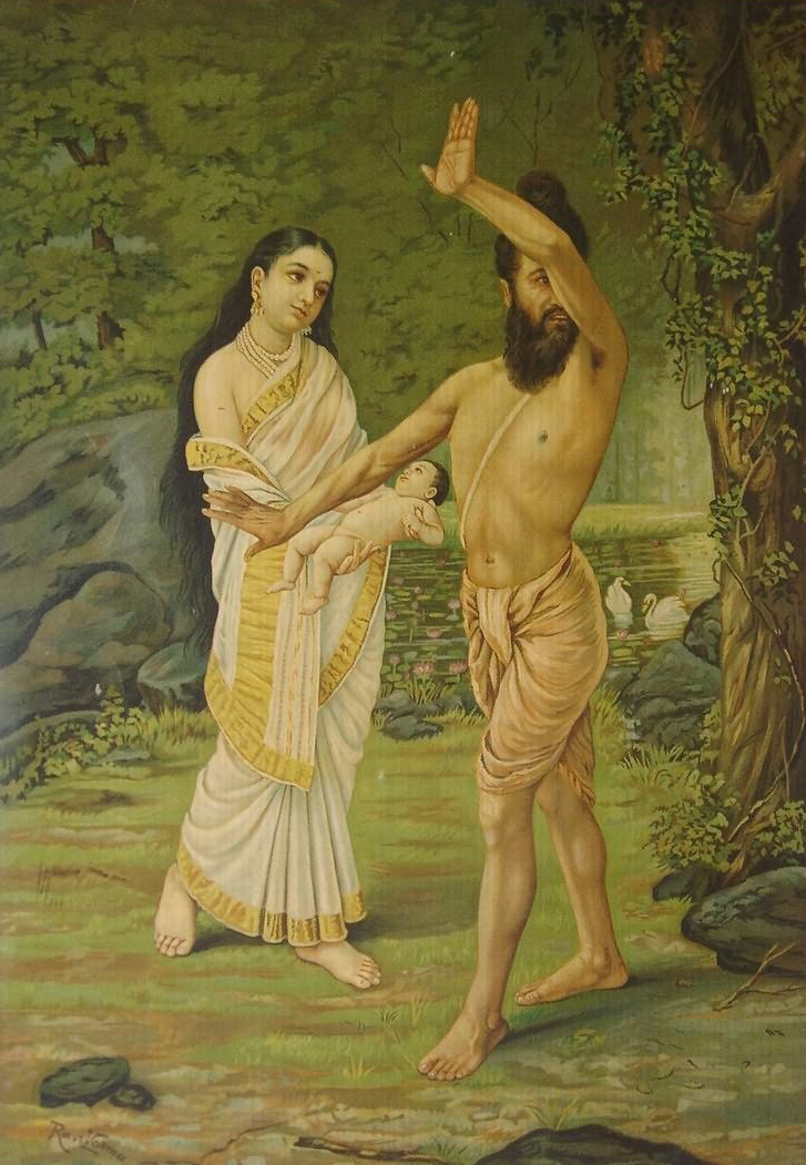 Vishwamitra refusing to accept child Shakuntala from Menaka.